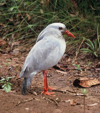 Detail from File:Rhynochetos_jubatus02.jpg